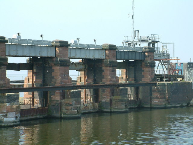 Weaver Sluices Situated on the west bank of the Manchester Ship Canal near the mouth of the River Weaver. The sluices are for regulating the water level on the canal, with the excess water going into the River Mersey.